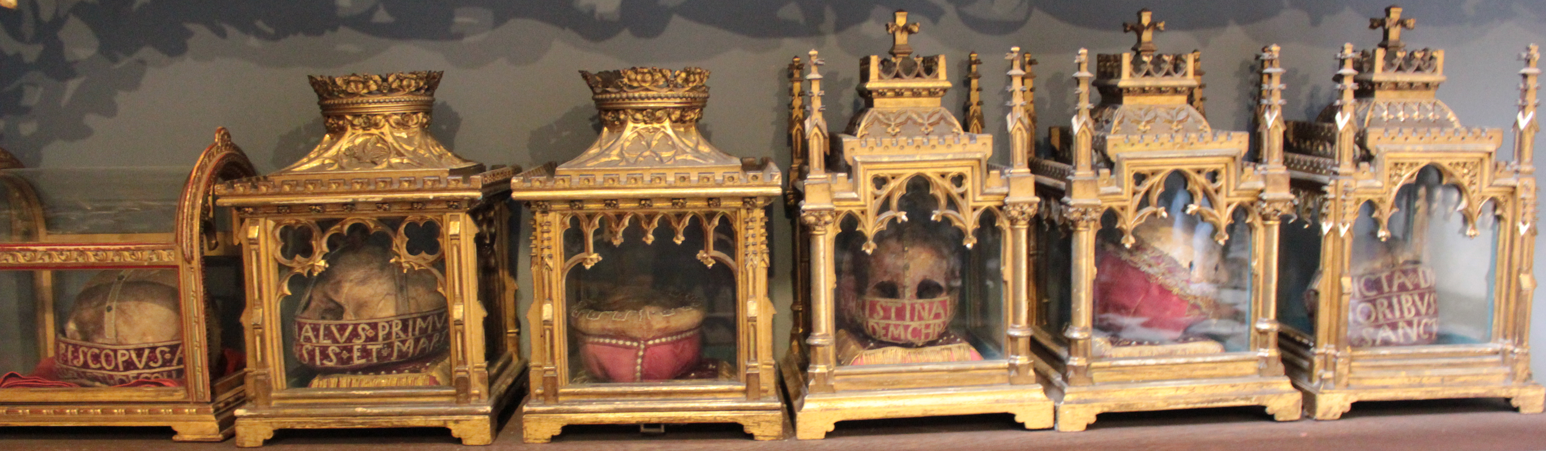 This image shows a portion of the skulls located in the Golden Chamber of the Basilica of St. Ursula in Cologne, Germany. These relics are allegedly from Ursula and the virgins who accompanied her, although their actual origin is disputed.